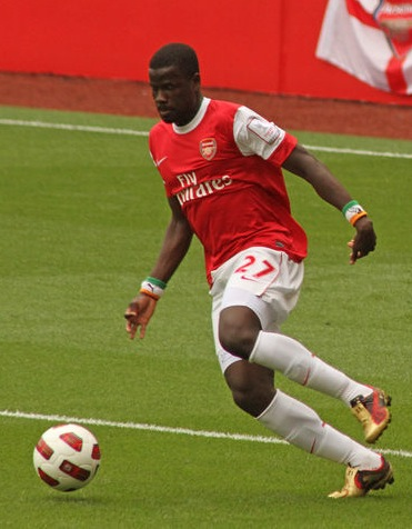 Emmanuel Eboué and Alexandre Pato during Emirates Cup 2010